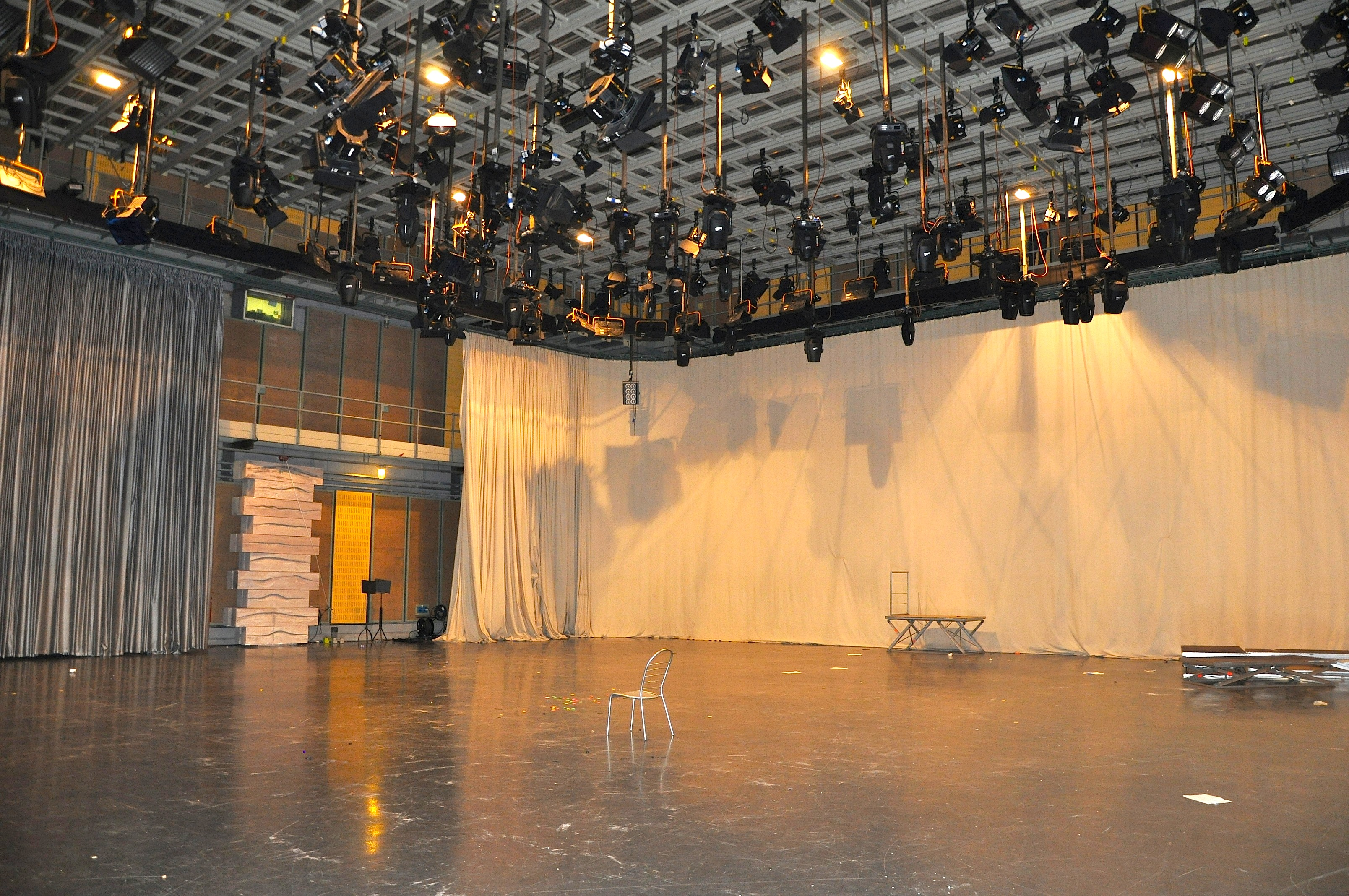 Studio 1 of TV Slovenia (Ljubljana)